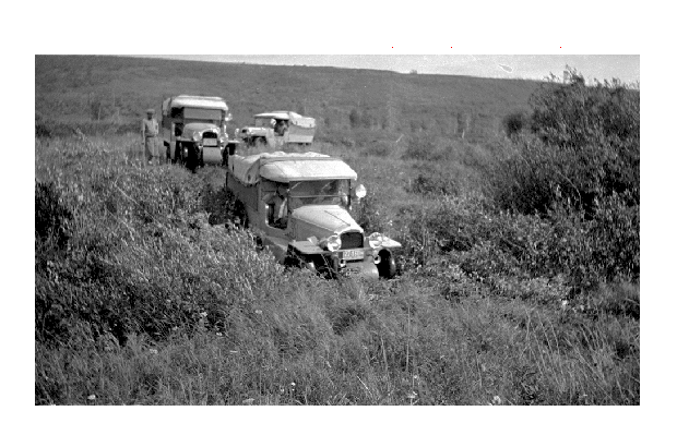 Bedaux Expedition in the Peace River Country (August 1934). The Bedaux Expedition was an attempt in 1934 by eccentric French millionaire, Charles Eugène Bedaux to cross the Alberta and British Columbia wilderness, while making a movie, testing Citroën half-tracks and generating publicity for himself.